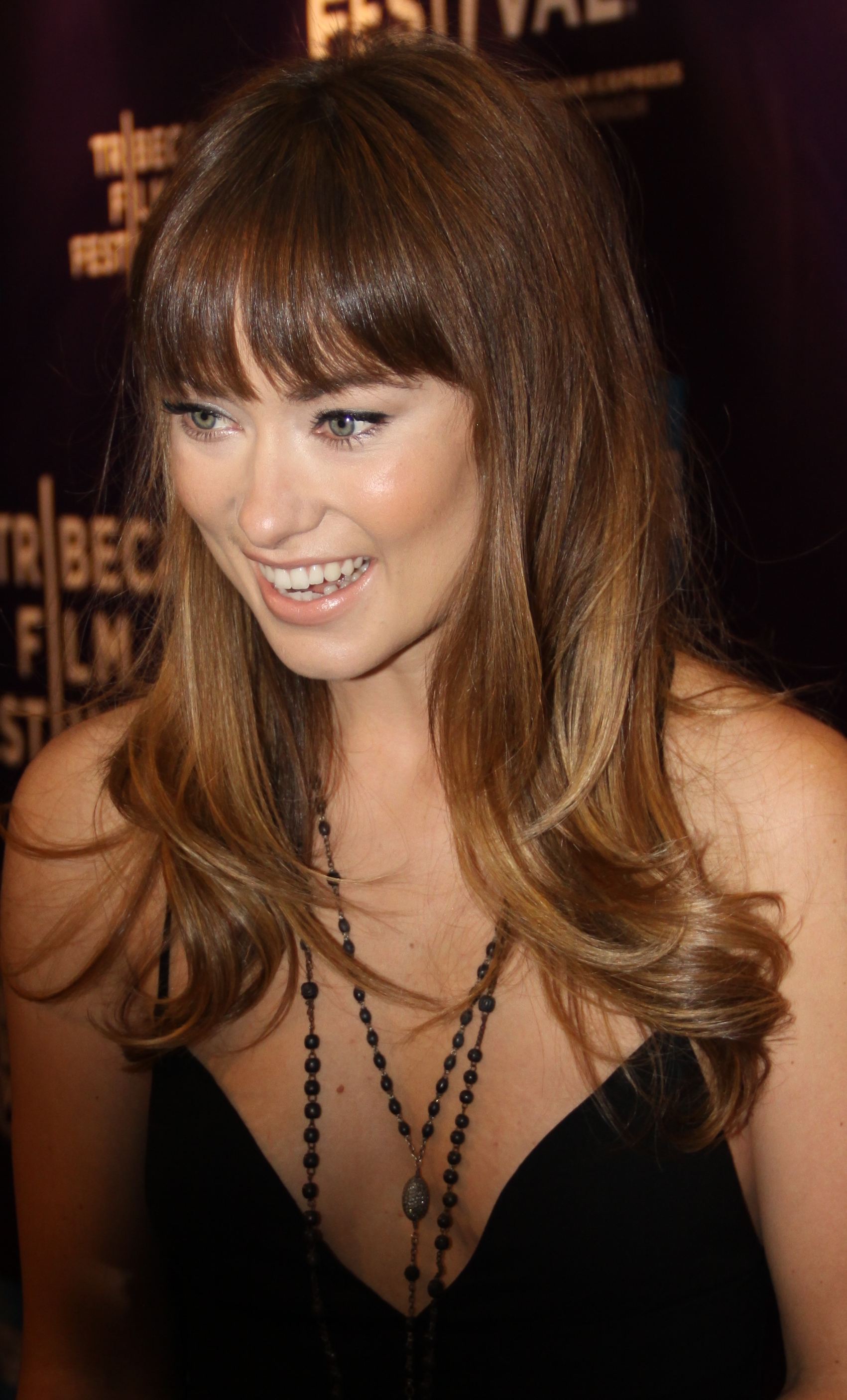 Olivia Wilde at 2011 Tribeca Film Festival.